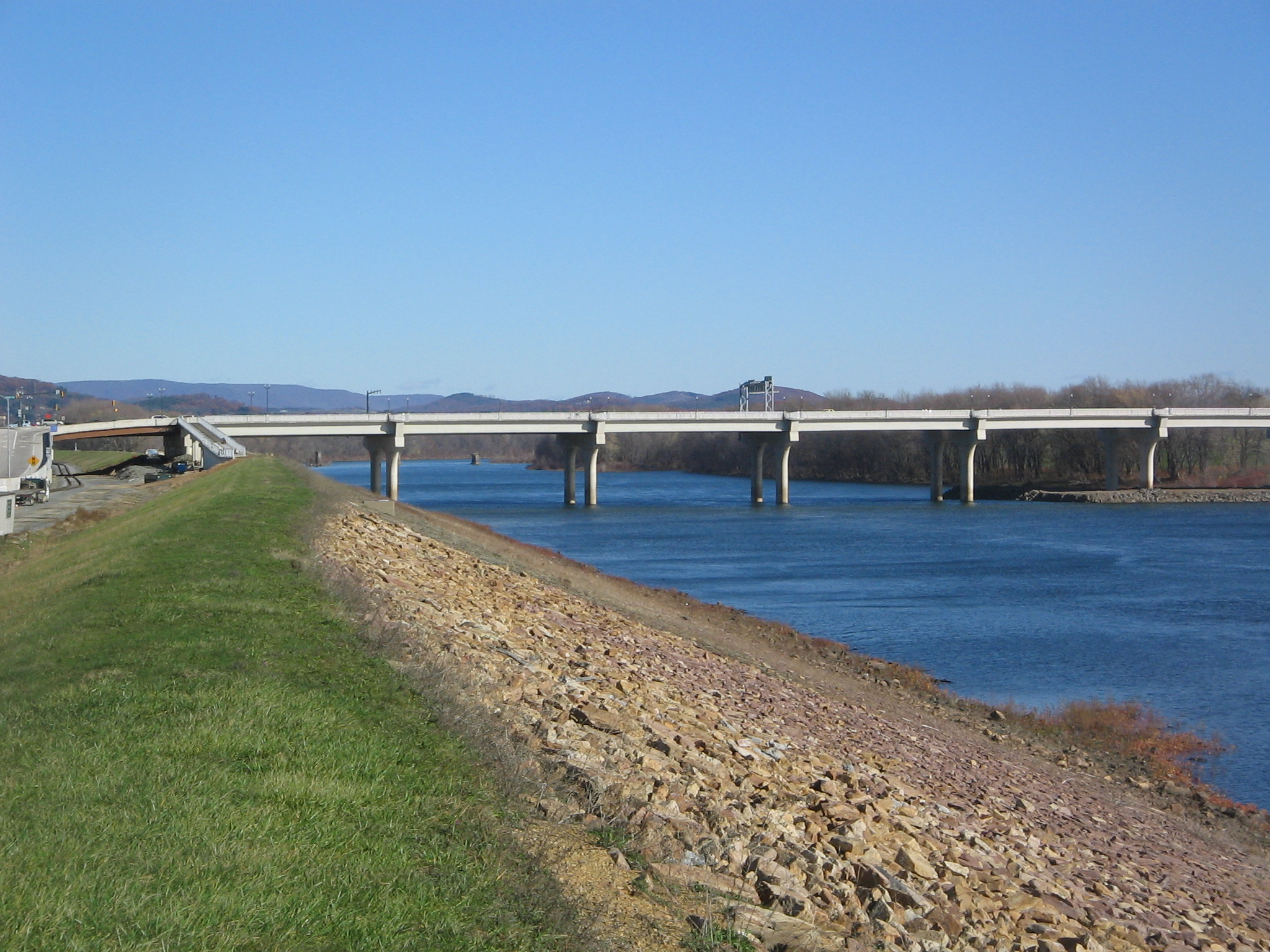 Market Street Bridge over West Branch Susquehanna River, connecting Williamsport and South Williamsport, Lycoming County, Pennsylvania, USA, US Route 15